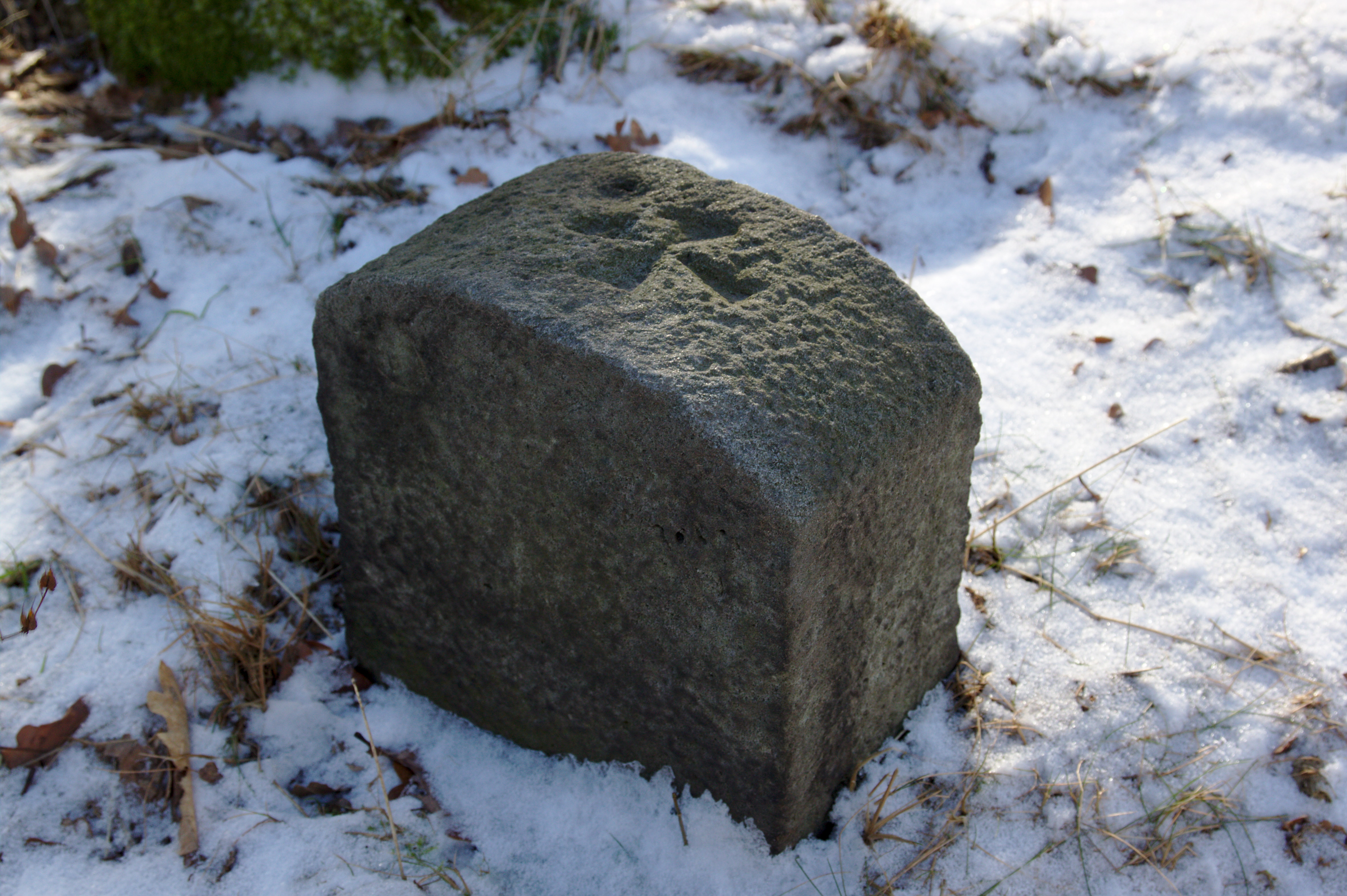 A remnant stone of a chapel on top of Mravenčí vrch above Chlumec.